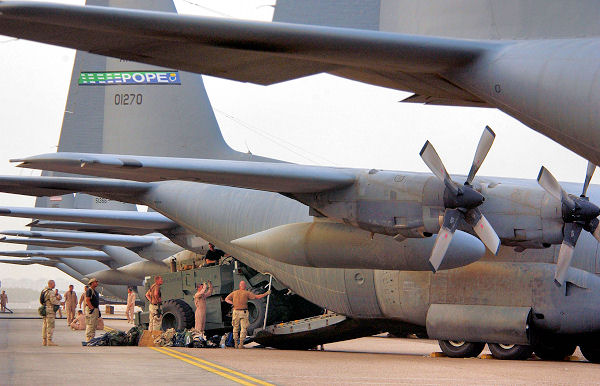 Members of the 778th Expeditionary Airlift Squadron, Pope Air Force Base, N.C., and members of the Global Mobility Assessment Team, 621st Air Mobility Group, McGuire AFB, N.J., load a forklift onto a C-130 Hercules in support of Operation Iraqi Freedom on April 11. It is the GAT's responsibility to assess all aspects of the airfield in order to accommodate future strategic airlift from Baghdad airfield.